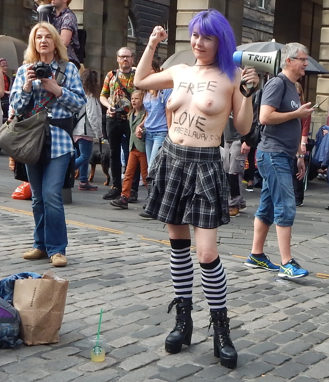 Samantha Pressdee, protesting for the release of Lauri Love at Fringe 2017, Free the Nipple Protest